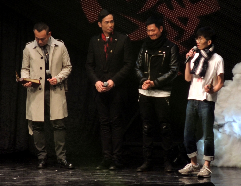 Sober Band @ Ultimate Song Chart Awards 2012